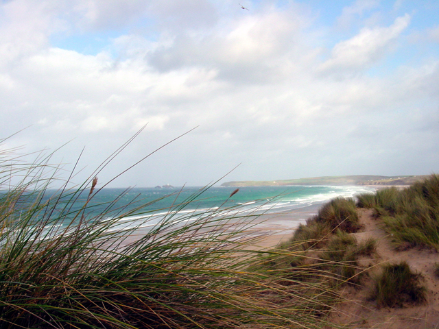 Dunes & beach at Phillack Towans, Godrevy Point and Island in the distance.